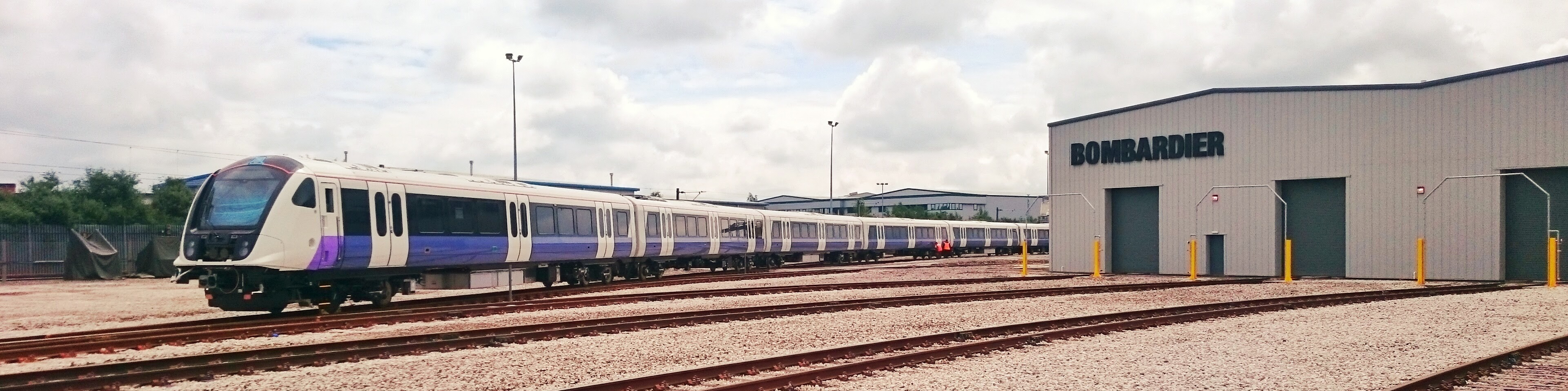 Picture of the Bombardier Aventra Class 345 train to be used on the Elizabeth Line in London.